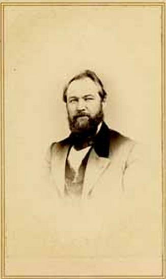 Captain Calvin H. Hale Picture